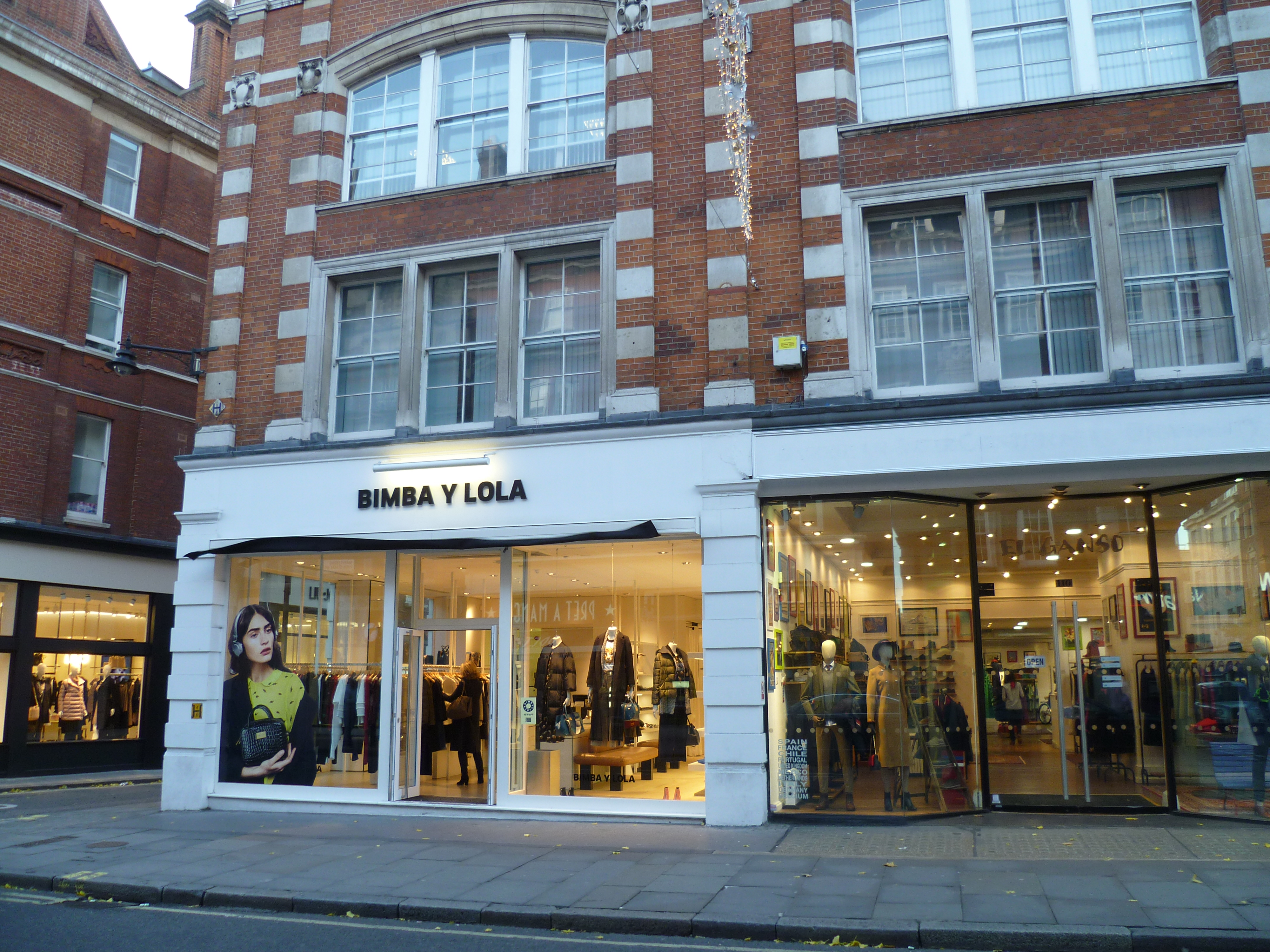 London